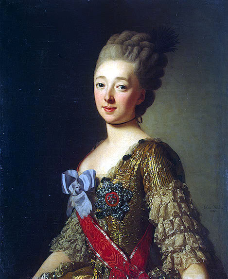 Grand Duchess Natalia Alexeievna of Russia, 1755-1776, daughter of Louis IX, Landgrave of Hesse-Darmstadt, wife of Grand Duke Paul Petrovich, later Emperor Paul I of Russia